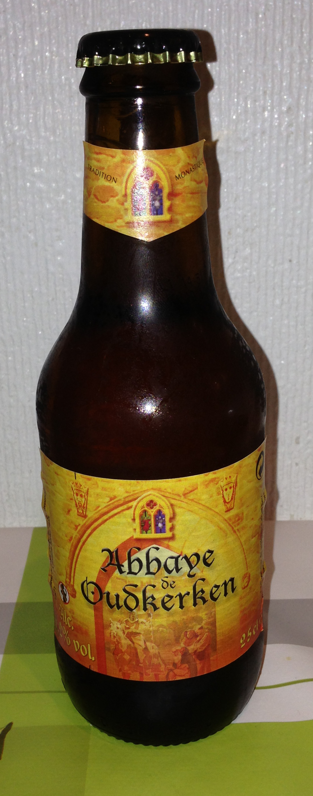 Abbaye de Oudkerken beer (Lefebvre brewery)